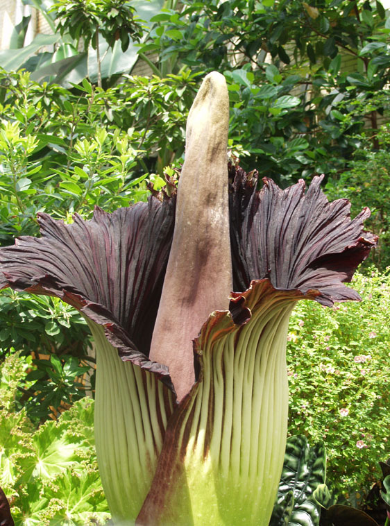 Titan arum2.jpg - closeup Downloaded from : en: Credits : US Botanic Garden nl:Afbeelding:Amorphophallus titan2.jpg